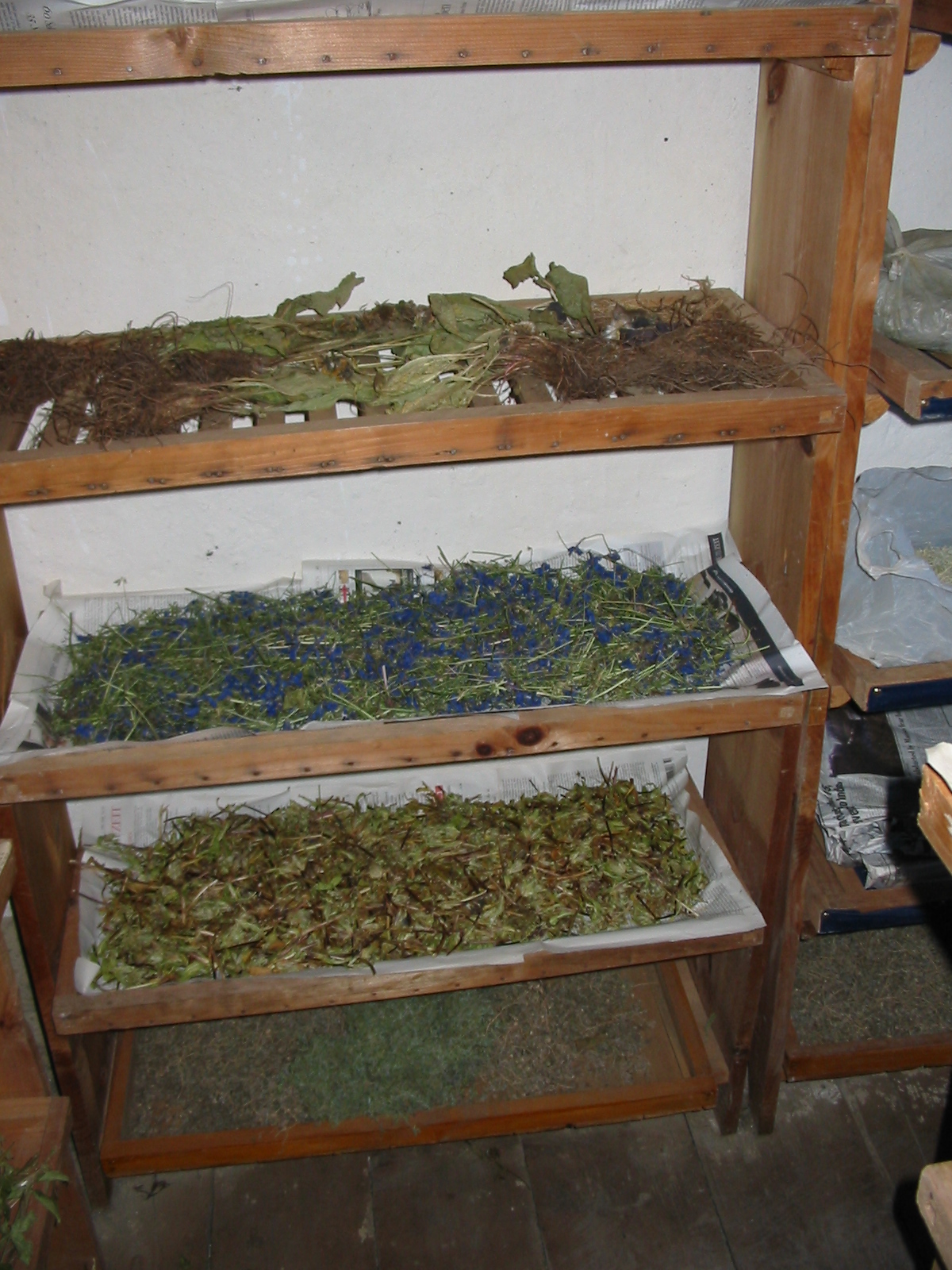 drying medicinal plant in muktinath tibetan traditional medical center, Jarkot (Muktinath), mustang district, Nepal Author = Thierry Le Ridant (france)